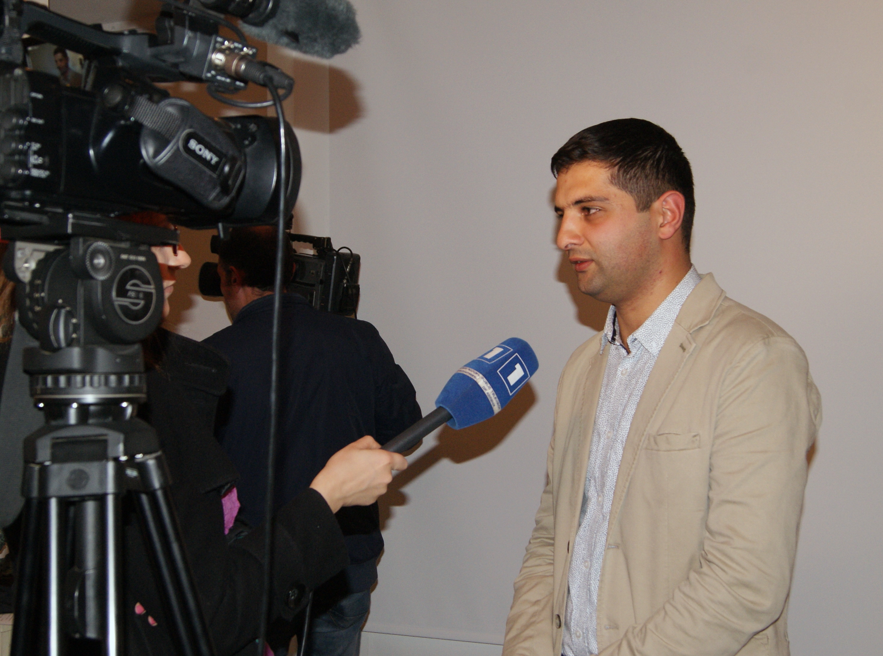 Արման Համբարձումյանի «Առասպելներ» ցուցահանդեսը Հովհաննես Շարամբեյանի անվան ժողովրդական ստեղծագործության կենտրոնում Arman Hambardzumyan's Exhibition "Myths" in Folk Arts Center